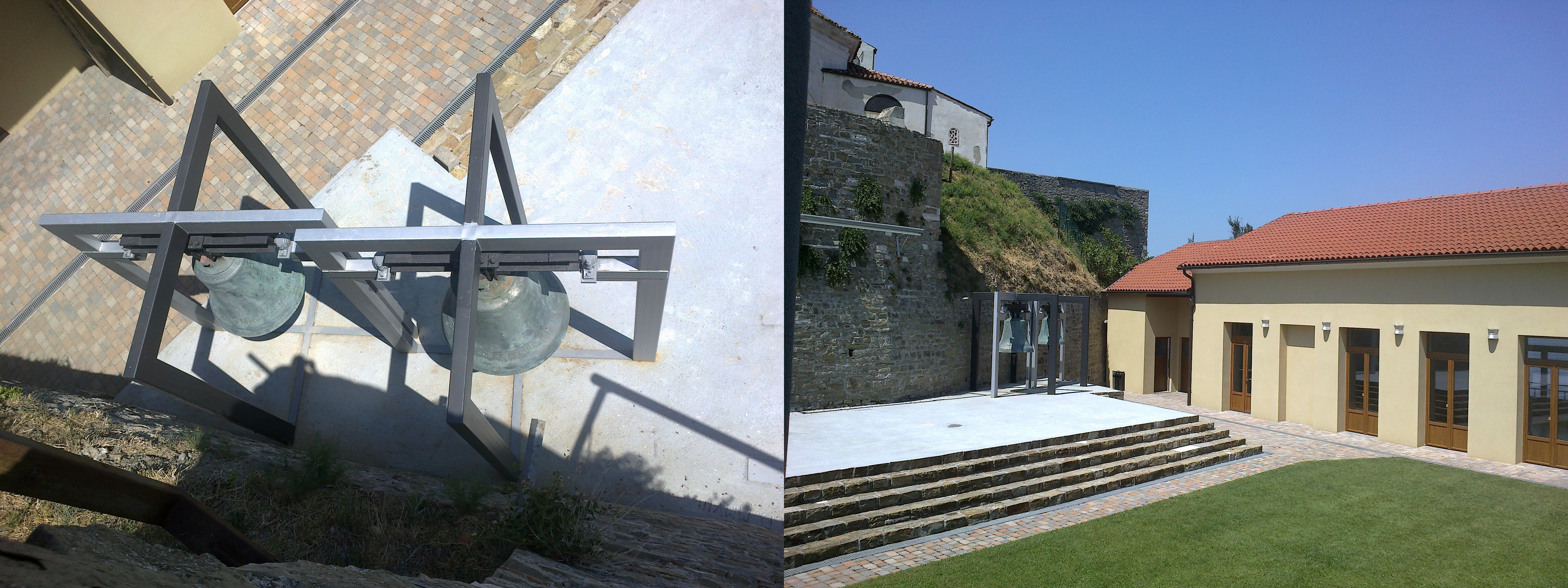 The bells of st. Konrad church were recently gifted to st. George's church in Piran. This picture shows them in church's yard.